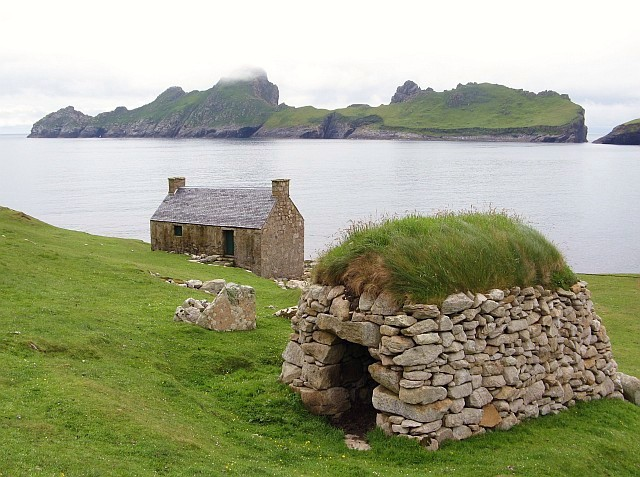 Cleit on Hirta. This small stone building topped with turf is one of the many hundreds of such constructions made and used by the St Kildans to store their food supply of seabirds. In the background is the Feather Store (see 229583).